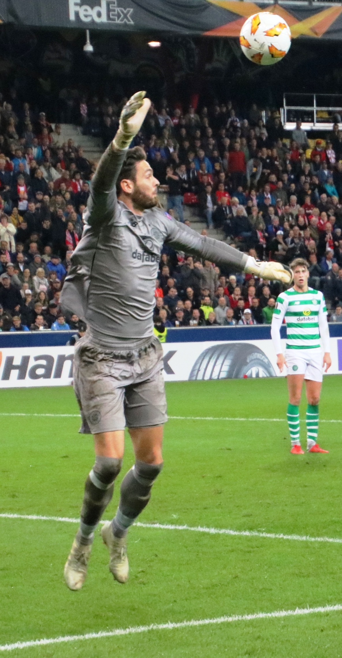 UEFA Euroleague Groupstage 2nd round